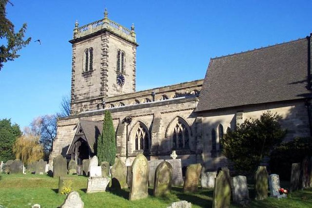 St. Nicholas, Abbots Bromley. Abbot's Bromley is noted for its traditional Horn Dance 262649. The reindeer horns are hung up in the church and are processed through the surrounding area in September each year. The celebration commemorates the granting of hunting rights to the villagers in Needwood Forest.